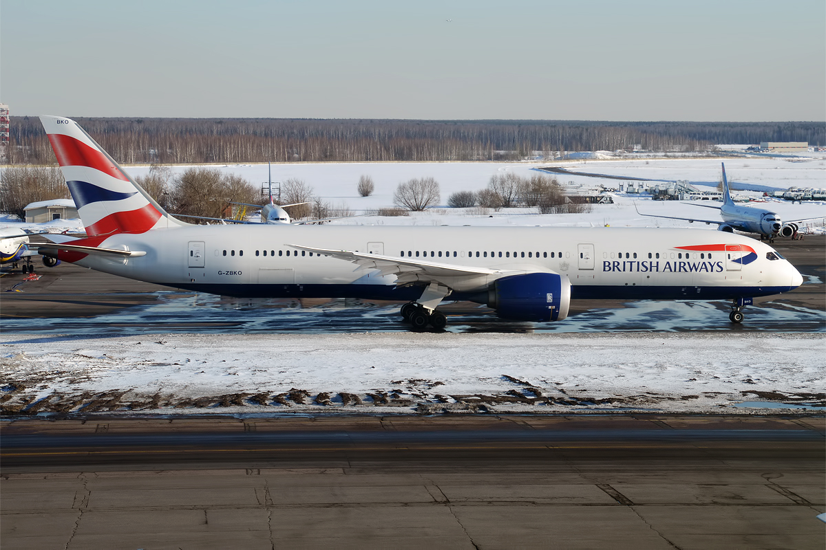 British Airways, G-ZBKO, Boeing 787-9 Dreamliner